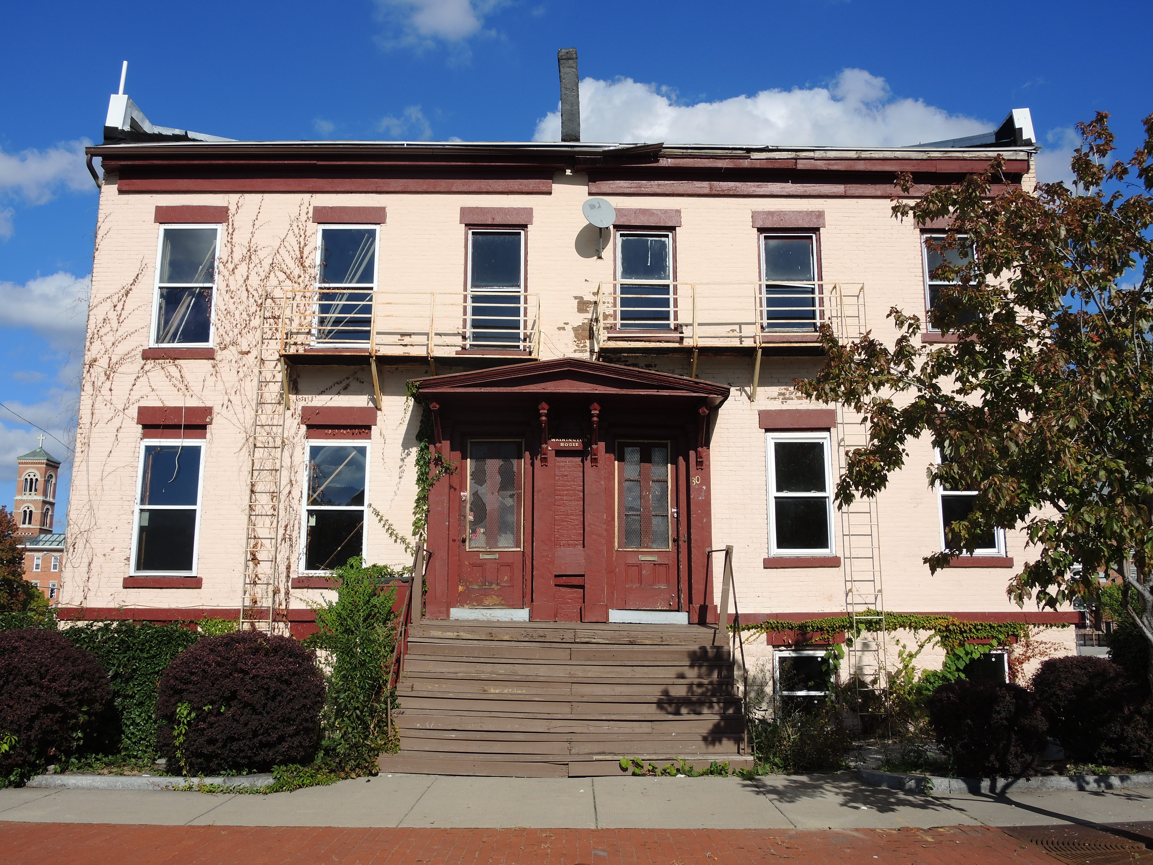 Washington Street Rowhouse in Rochester, New York